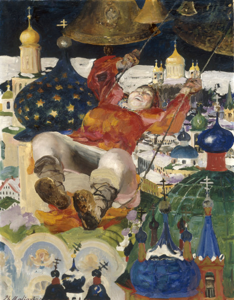 Junge frau auf einer schaukel